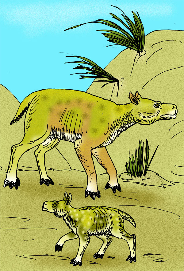 Reconstructions of the Late Oligocene oreodonts Sespia ultima (top) and S. californica (C) Stanton F. Fink